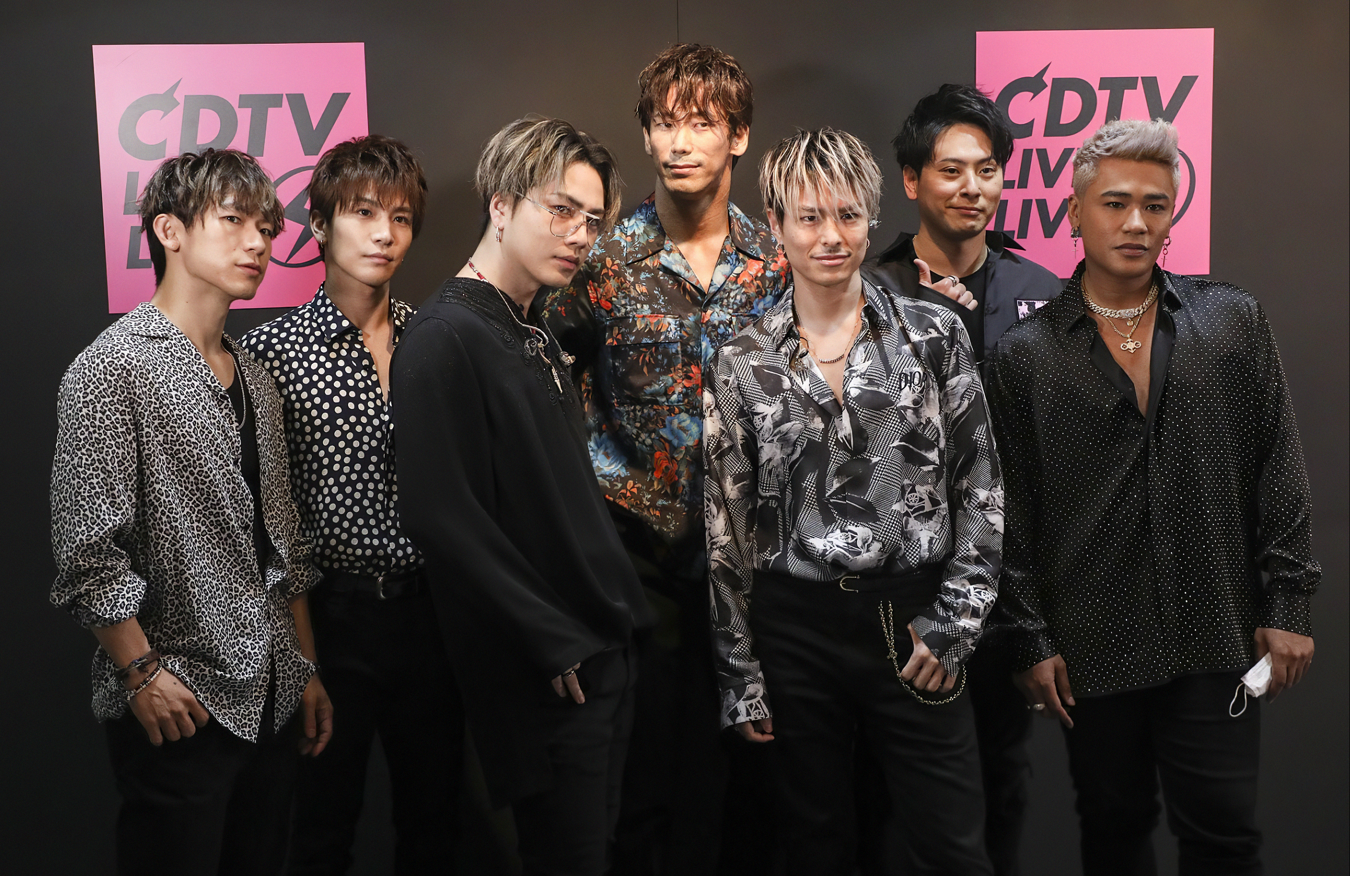 Image of Japanese pop group Sandaime J Soul Brothers in 2020.